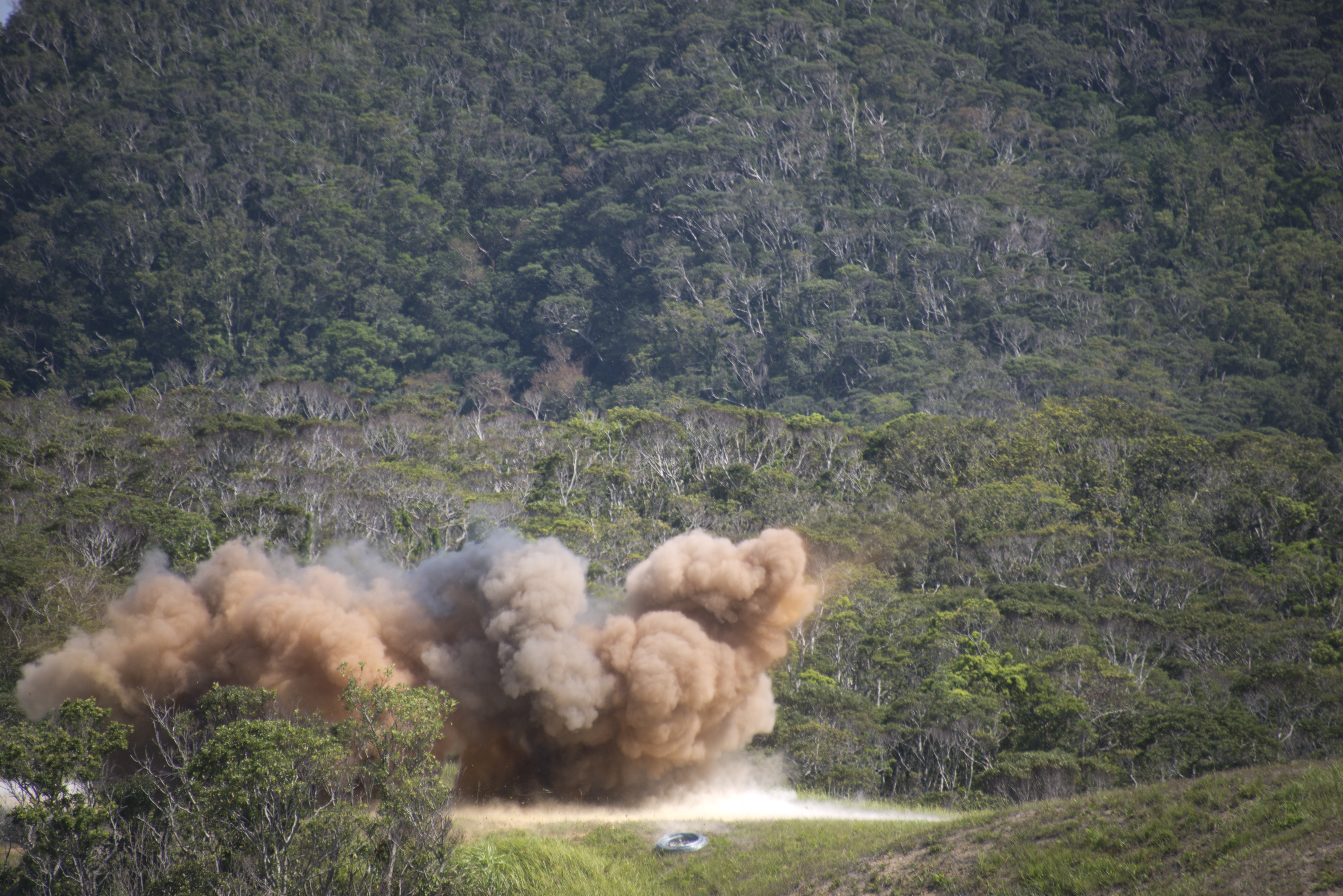 A bangalore torpedo charge planted by Marines with Combat Engineer Company, Combat Assault Battalion, detonates July 22 at Range 10 near Camp Schwab during a combined-arms live-fire and maneuver exercise. The bangalore torpedo charge cleared a path through concertina wire during the training. During combat operations, the charge is used to clear land mines or improvised explosive devices. CAB is a part of 3rd Marine Division, III Marine Expeditionary Force.